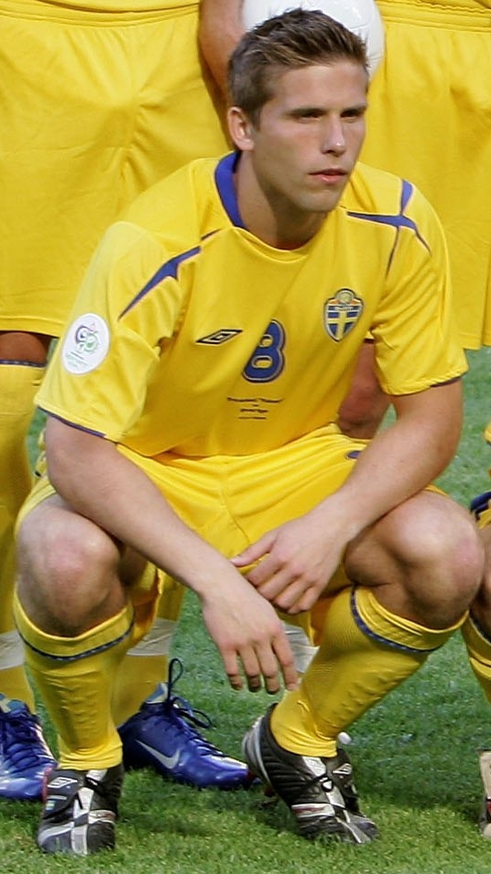 Anders Svensson (Swedish national football team) before the FIFA World Cup match against Trinidad and Tobago on June 10, 2006